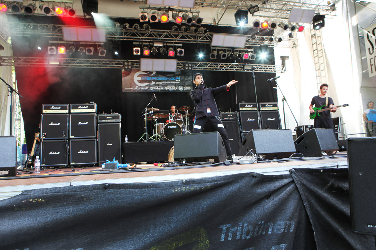 Yaseedee from Ferrara, Italy at Emergenza International Finals 2009 at Taubertal Festival in Rothenburg ob der Tauber Deutschland